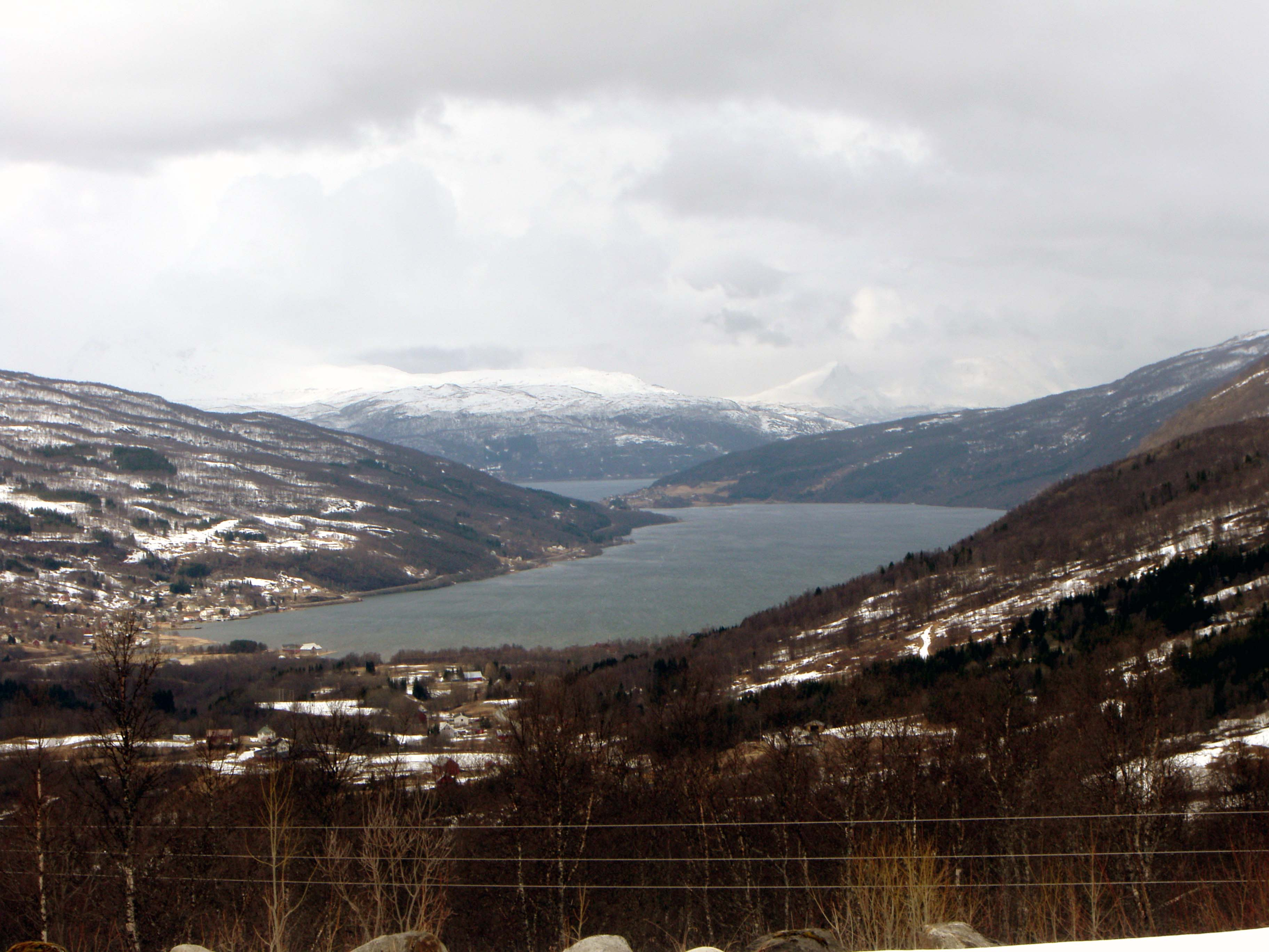 View of from Gratangsfjellet hotell (former Grantangen turiststasjon) of the innermost part of the fjord Gratangen, in Gratangen, Norway. The innermost part of the fjord is called Gratangsbotn, as is the hamlet in that area.